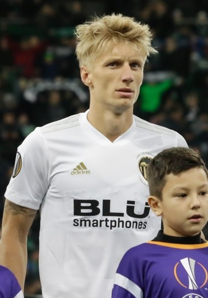 Daniel Wass with Valencia CF before an Europa League game against FC Krasnodar.